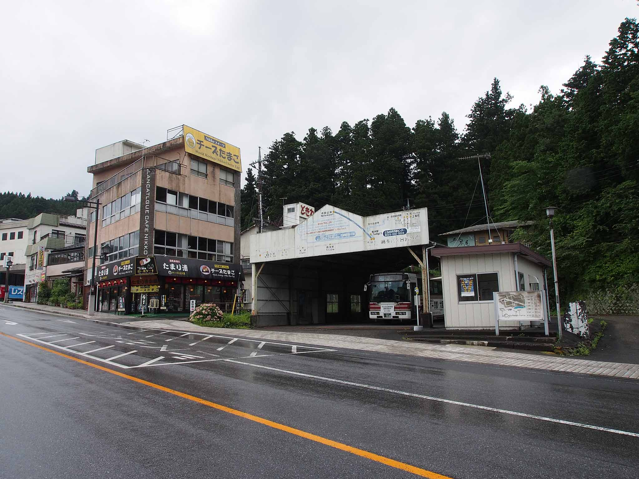 Nikko Toshogu Bus stop and Nikko Dept for Kanto Jidosha, located at Yasukawa-cho, Nikko City.